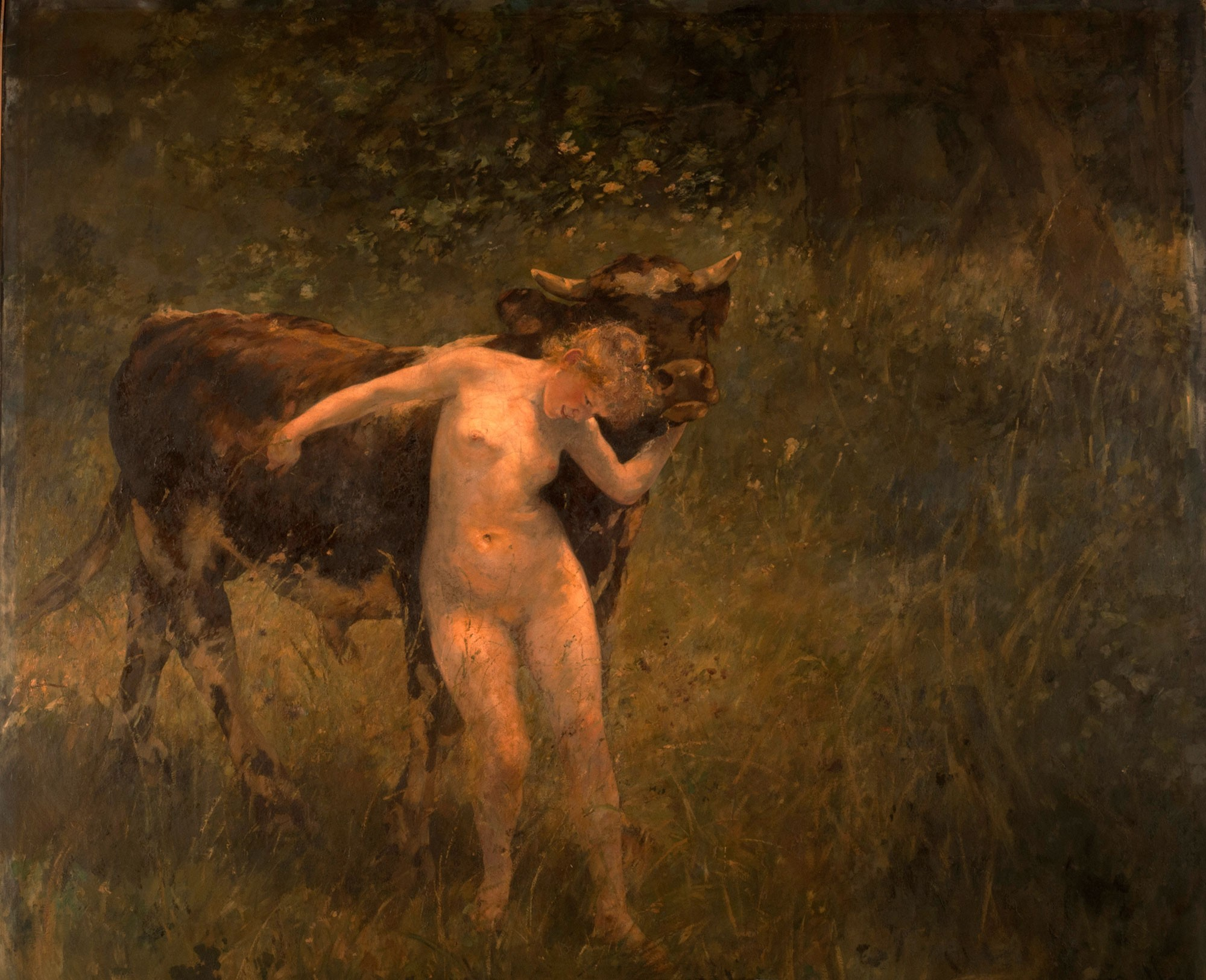 Woman and bull